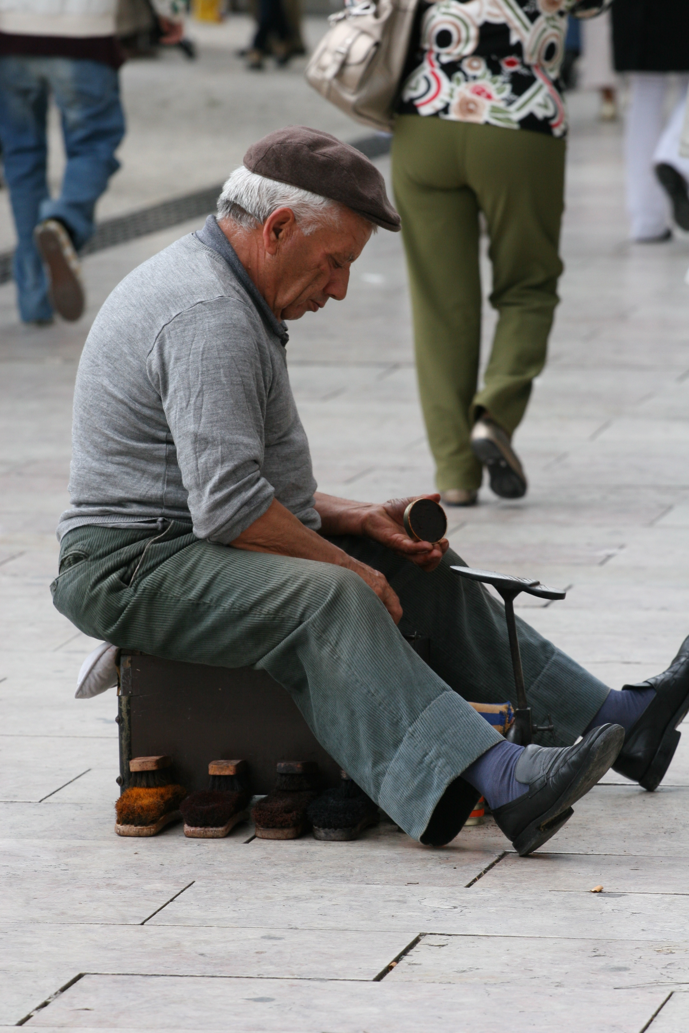 Shoe Shine Man